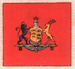 Kingdom of Württemberg's Colours